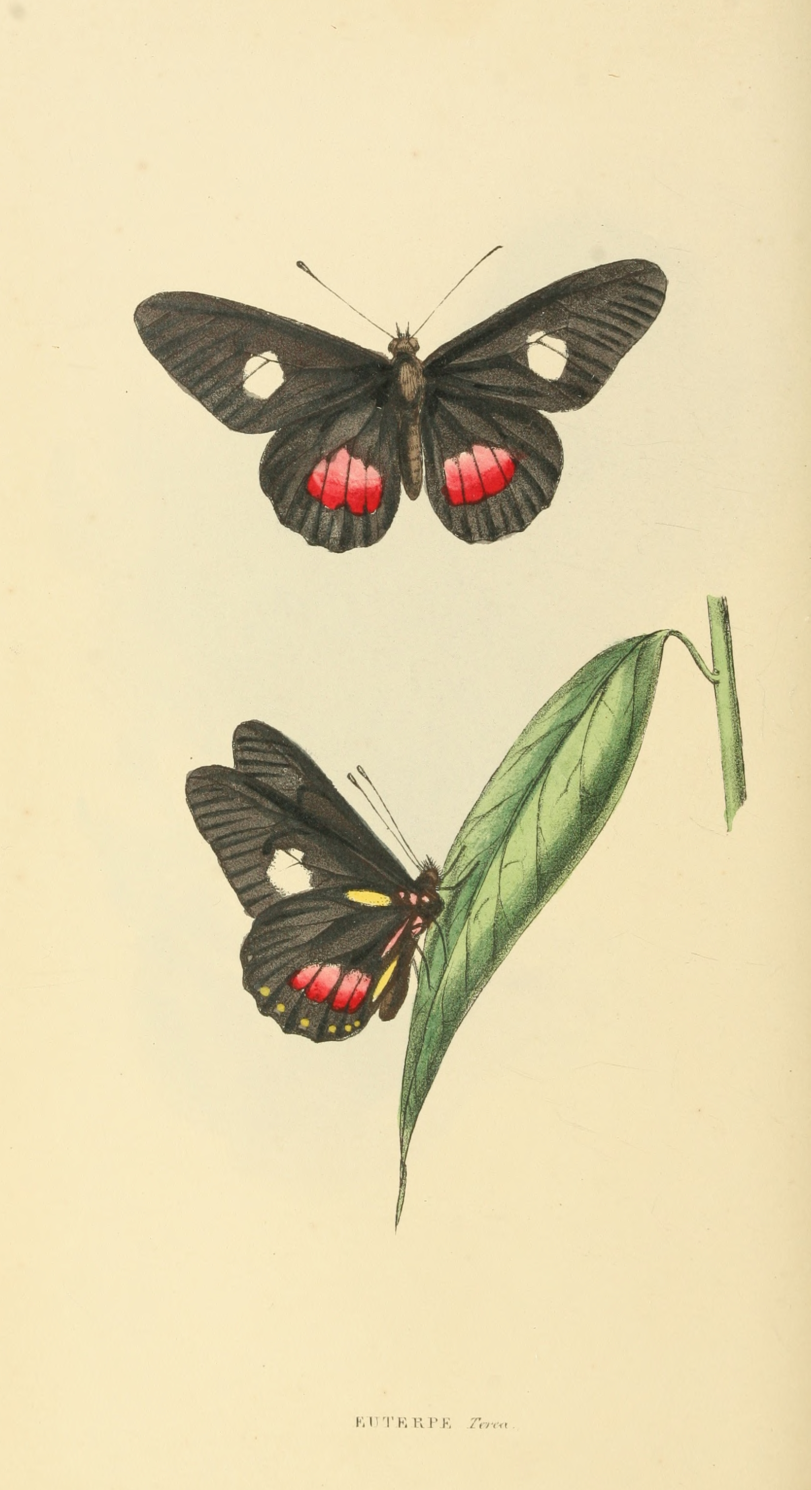 Plate from Zoological illustrations, Volume 2, 2nd series. Euterpe Terea (plate & text; Teria index) = Papilio Terias Latrielle & Godart. Accepted as Archonias brassolistereas